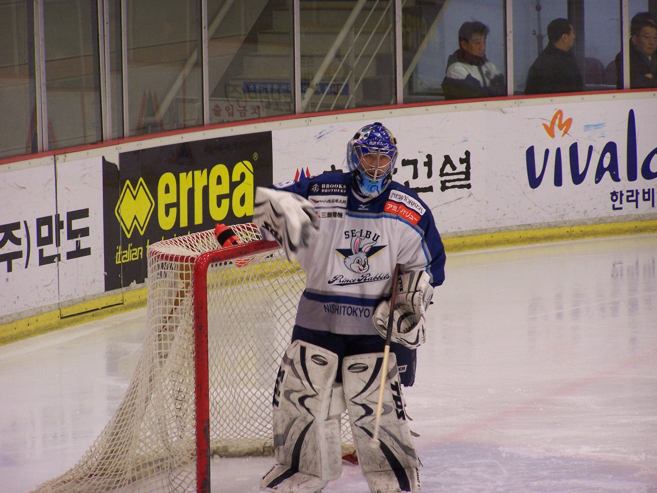 Seibu goalie Naoya Kikuchi during the second period of the January 17, 2009 game vs Anyang Halla